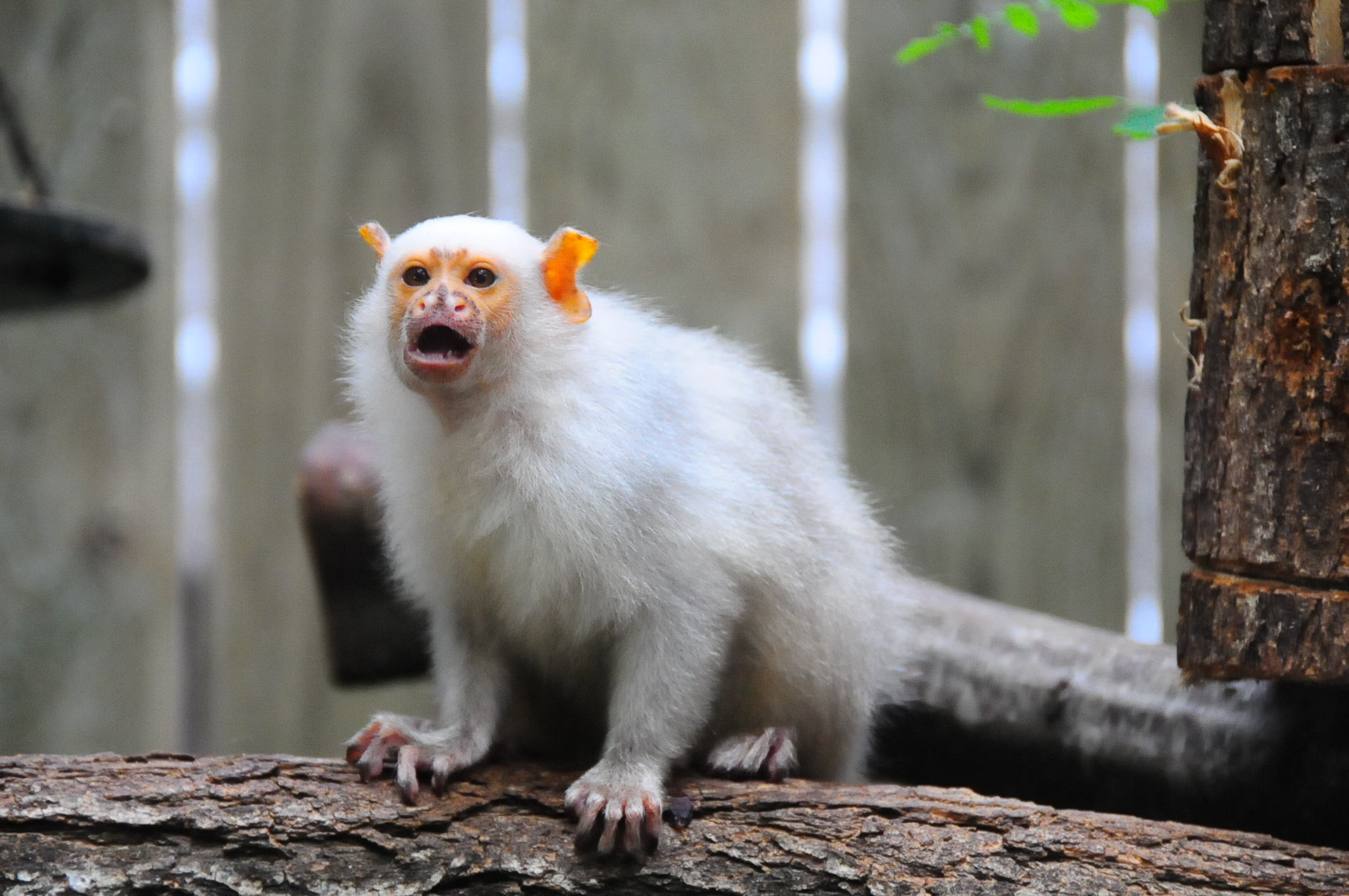 Silvery Marmoset (Mico argentatus)